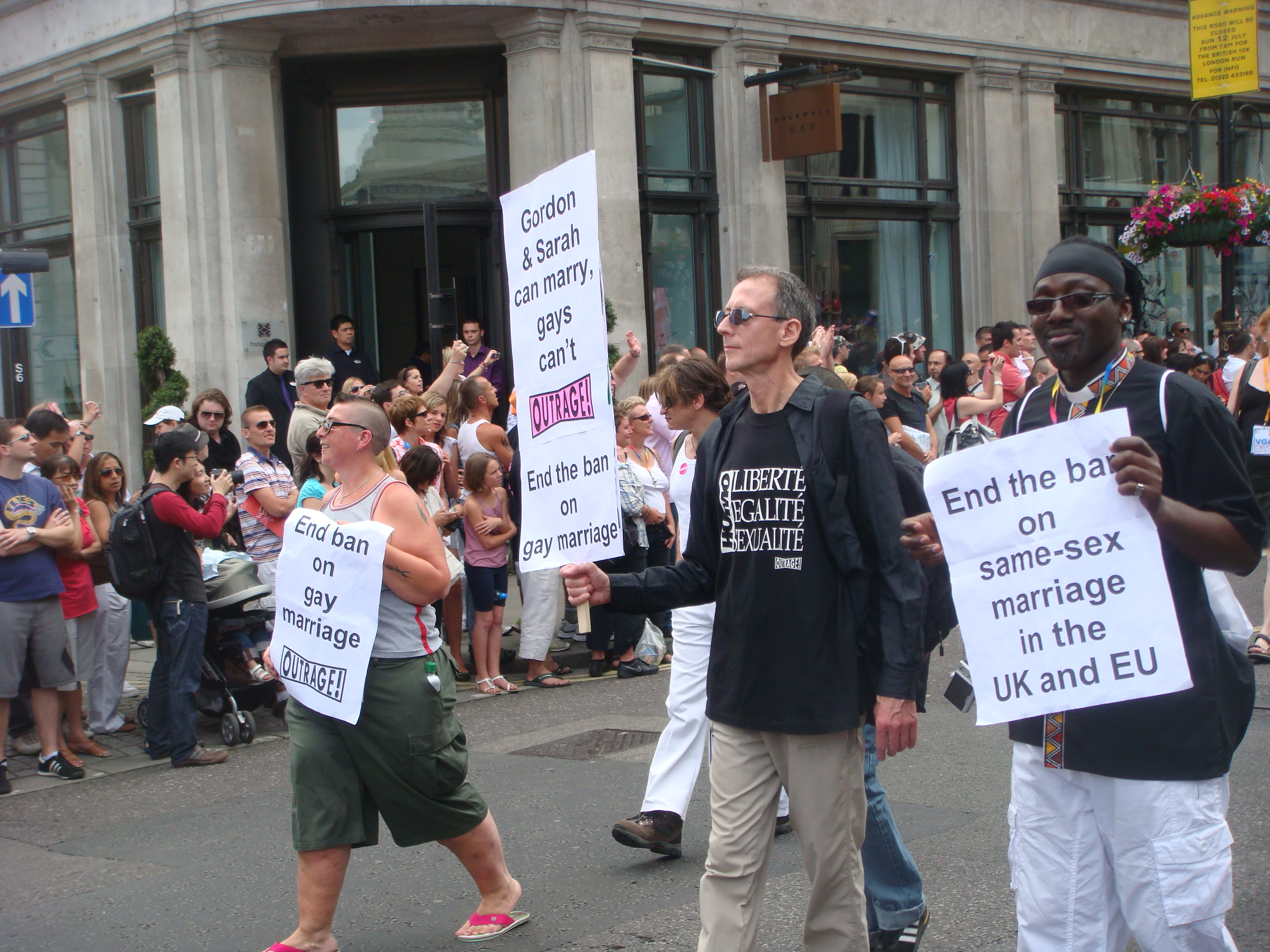 Gay Pride in London 2009. Photographs taken at Trafalgar Square.